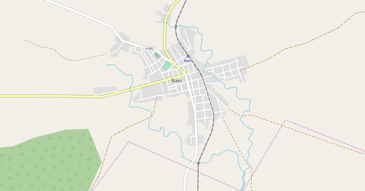 This map may be incomplete, and may contain errors. Don't rely solely on it for navigation.